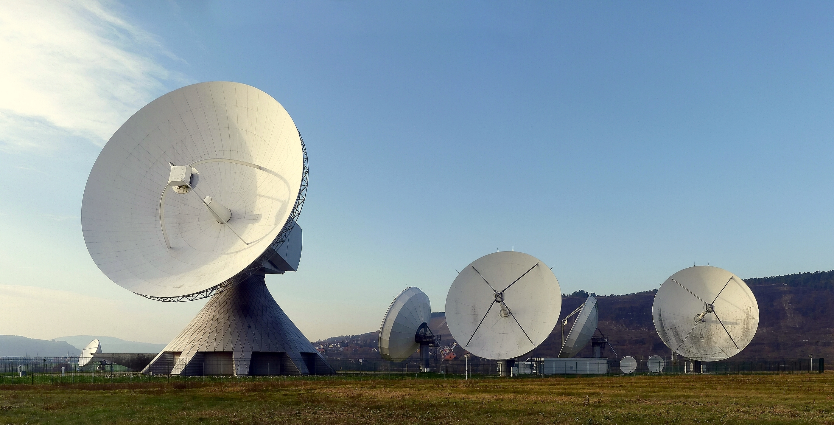 Antenna array 2 of the earth station Fuchsstadt, Germany. The earth station with its around 50 parabolic antennas is part of one of the world's largest satellite communications systems, operated by Intelsat, a US-American company. Antenna array 2, one out of a total of four, consists of one antenna with a diameter of 32 m from 1985, four antennas with a diameter of 16.4 m and various smaller ones.